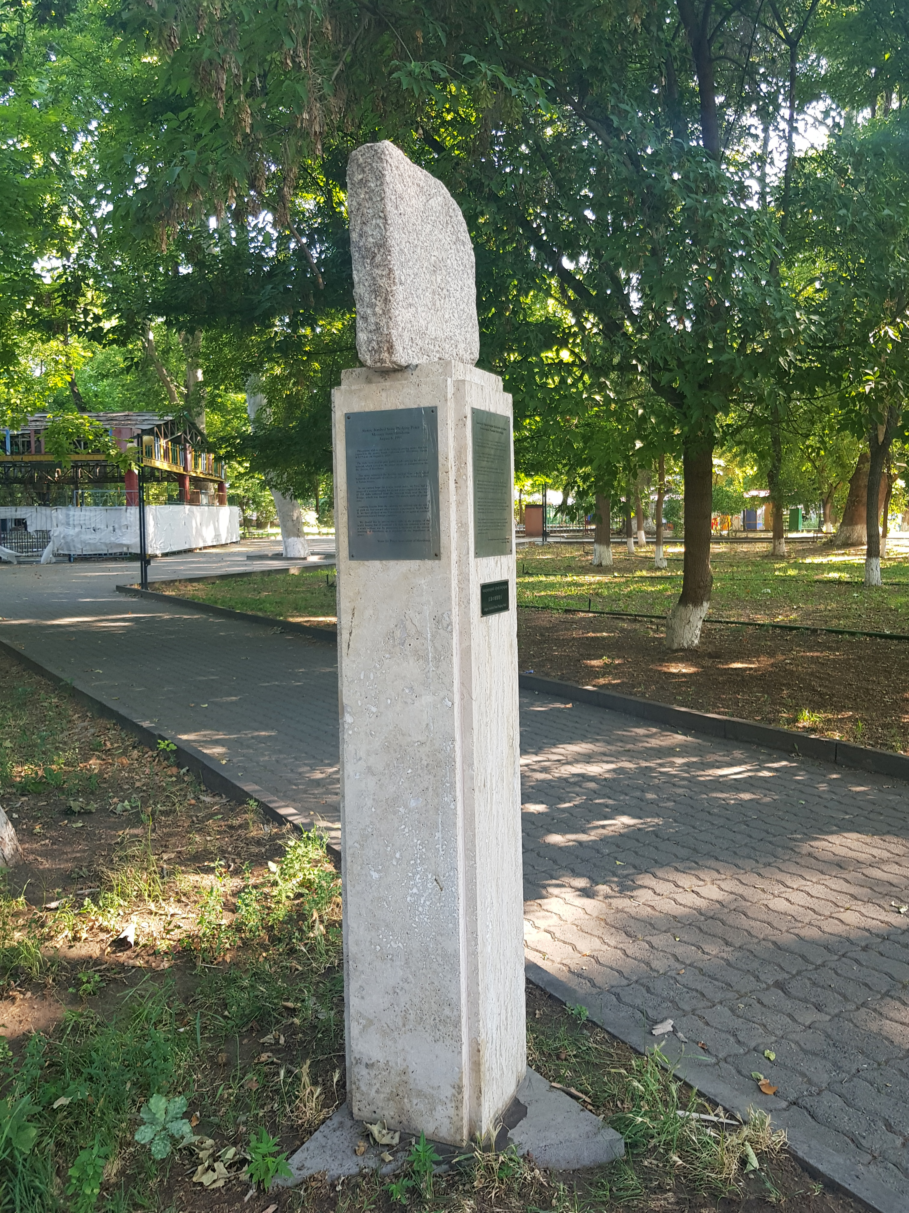 Hiroshima Peace Memorial (Yerevan)